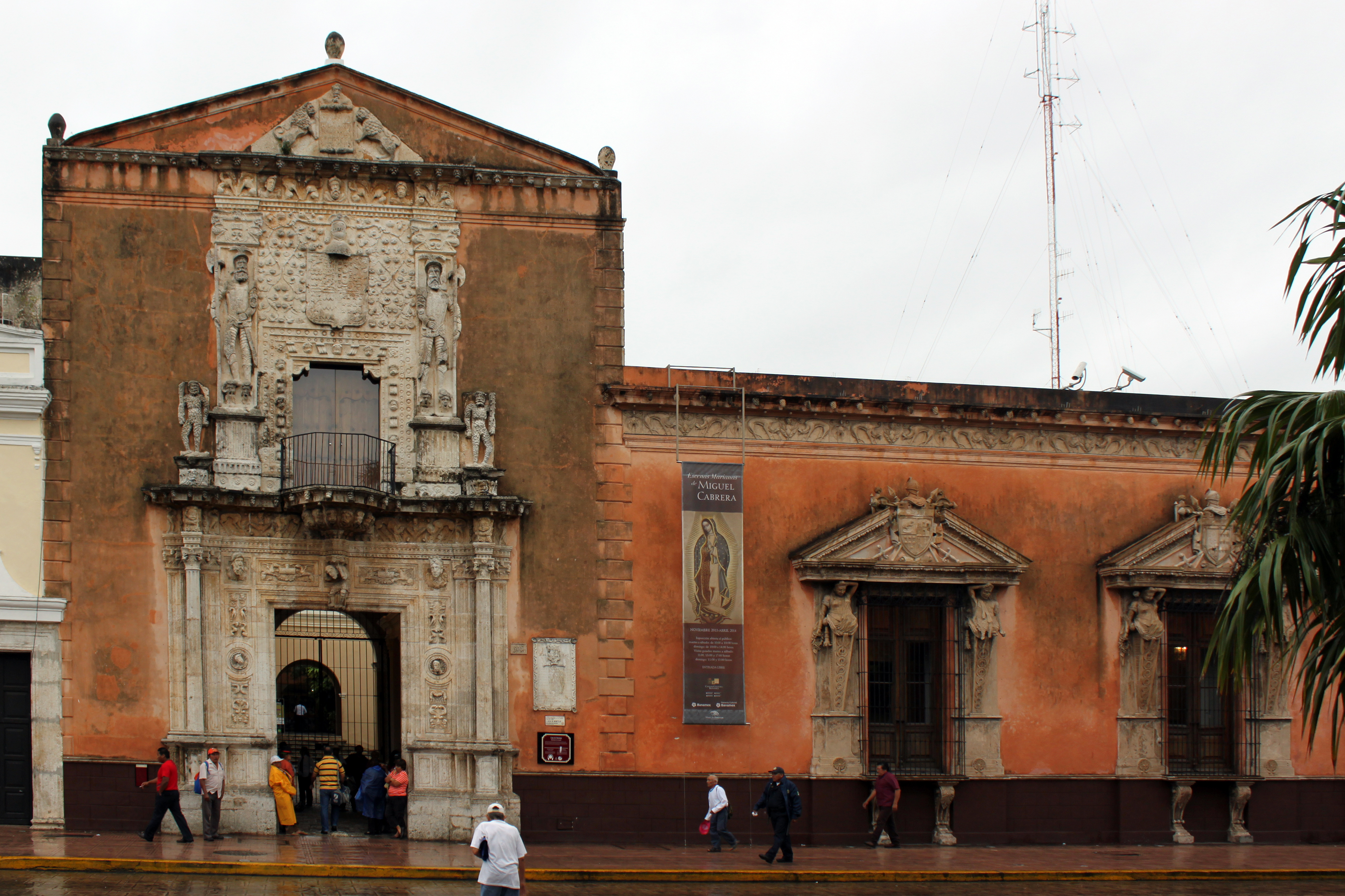 Mérida, Mexico - house of the conquistador Montejo